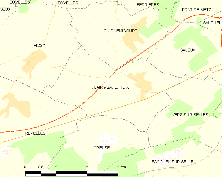 Map of French municipality Clairy-Saulchoix